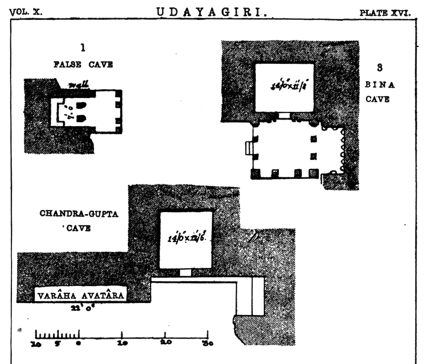 The Udayagiri Caves are twenty rock-cut caves near Vidisha, Madhya Pradesh from the early years of the 5th century CE. 19 of them are Hindu cave temples, 1 is a Jaina cave temple, both co-located. These contain some of the oldest surviving Hindu temples and iconography in India, as well some of early inscriptions. The iconography includes those for Vishnu, Devi, Shiva along with other Vedic and Puranic deities. The reliefs narrate Hindu religious legends as well show secular scenes such as daily life, lovers and meditating people. These images are photographs from the appendix of a book published in 1880 by Alexander Cunningham for the Archaeological Survey of India, Volume 10 (personal copy). The photographed plates are XVI through XIX. The link below is provided for easier verification of the publication date and to confirm PD-Art-100-70 + Creative Commons 4.0 license.